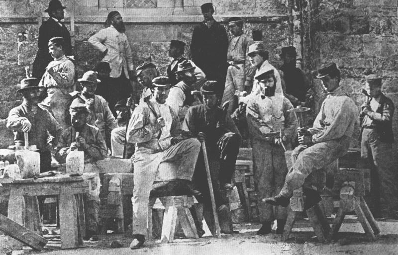 Restoration workers at Nidaros Cathedral, 1872.